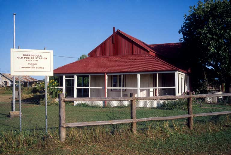 Historic Police Station in Borroloola in the Northern Territory of Australia built in the 1880s (PH0780/0022).